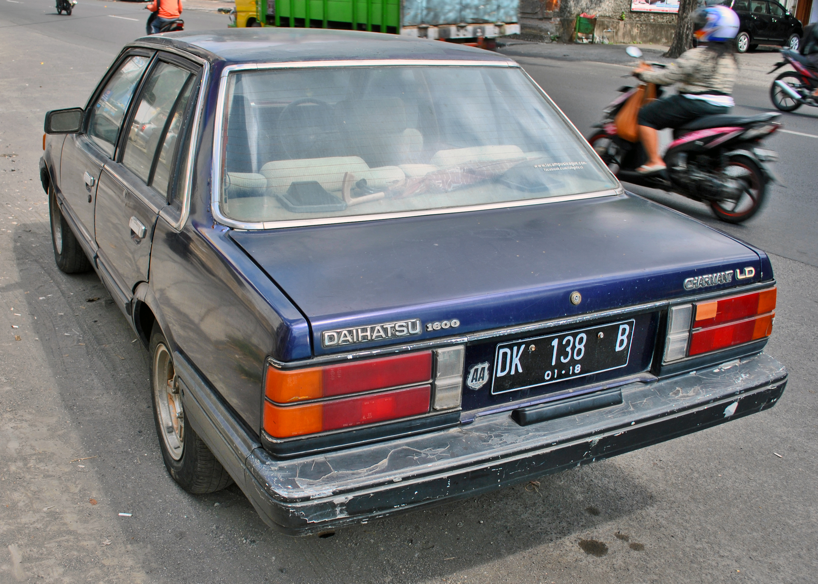 Rare 1983 Daihatsu Charmant sedan found at a Denpasar street.